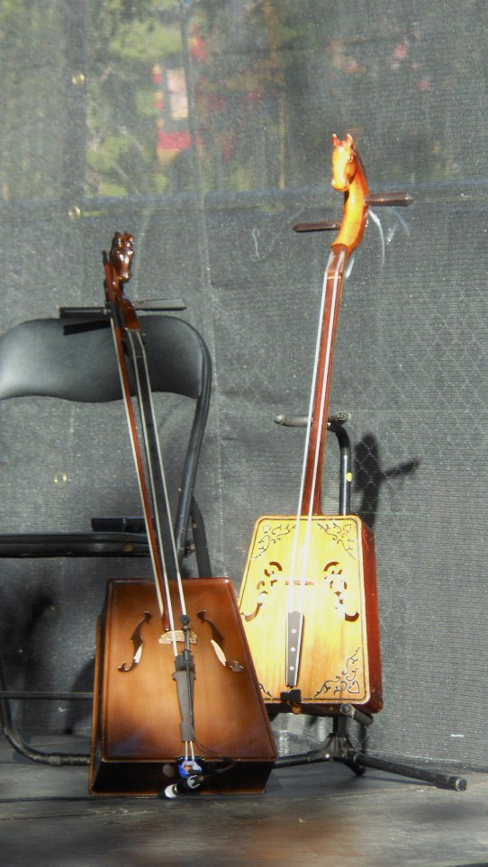 Mongolian horsehair/horsehead fiddles at the WOMADelaide festival in Adelaide, Australia on March 9, 2012.